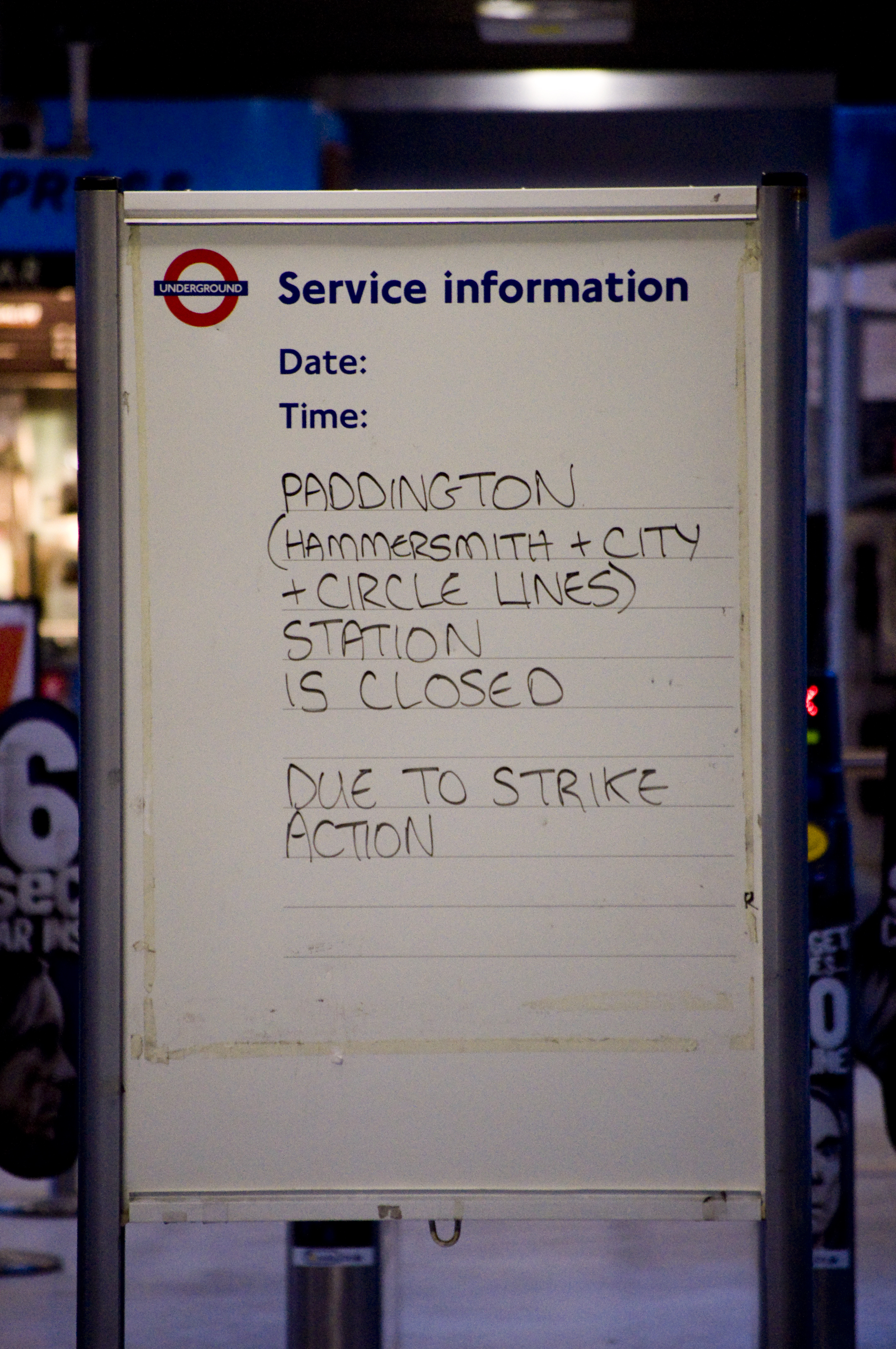 If you use this photo, please link to for attribution.